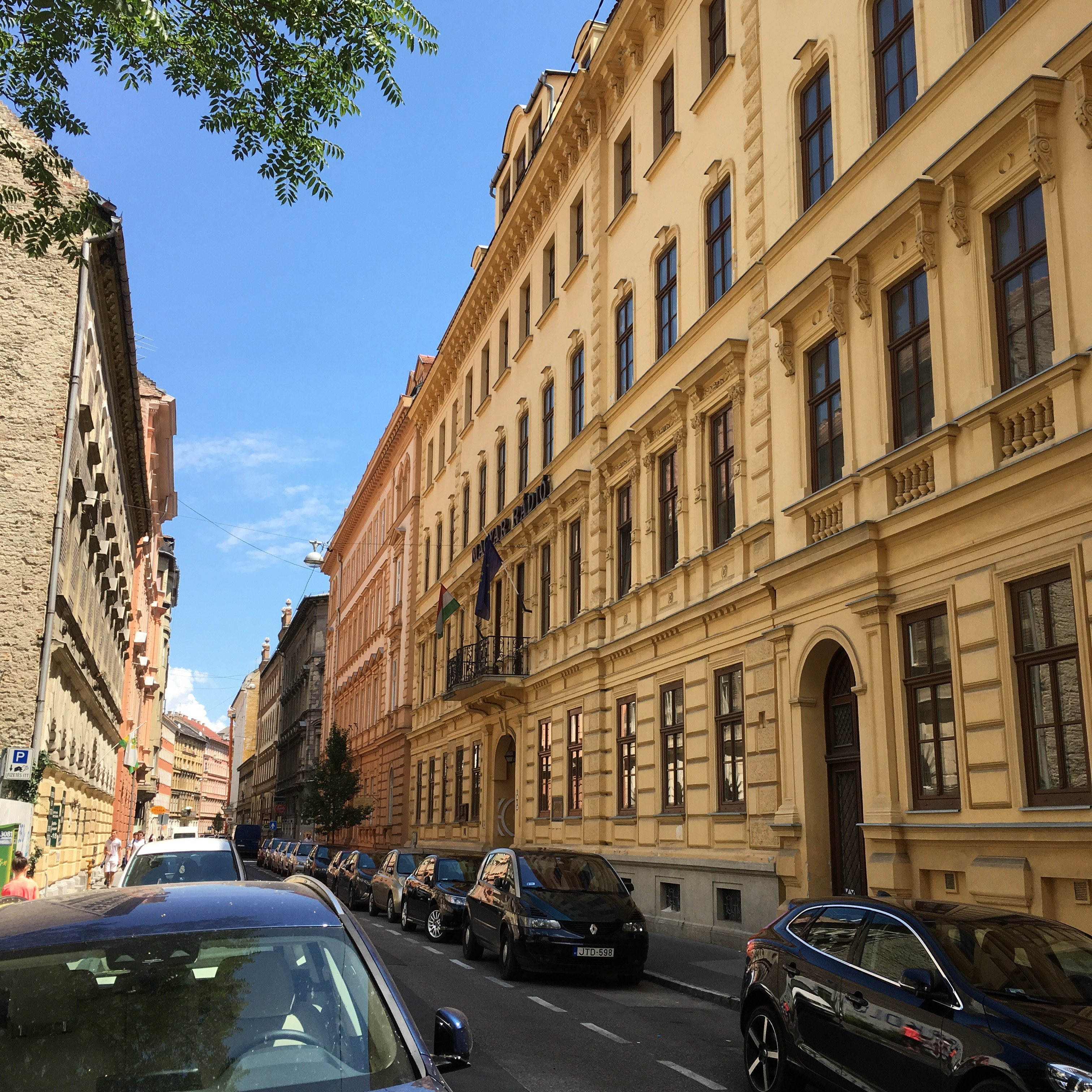 Brody sandor